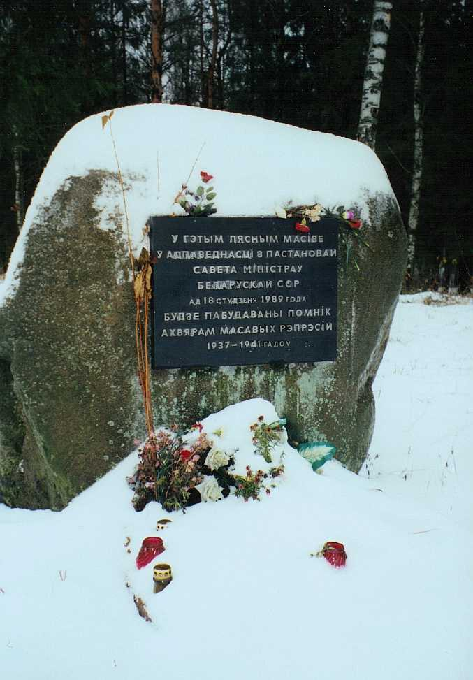 Memorial stone at Kurapaty, Minsk, 2000.